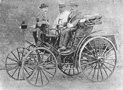 Émile Roger was the Parisian representative for German Benz automobiles. He imported several of them into the USA for the World’s Columbian Exposition of 1893. Three of them started in the 1895 Chicago Times-Herald contest. (This one was a Benz Victoria.)